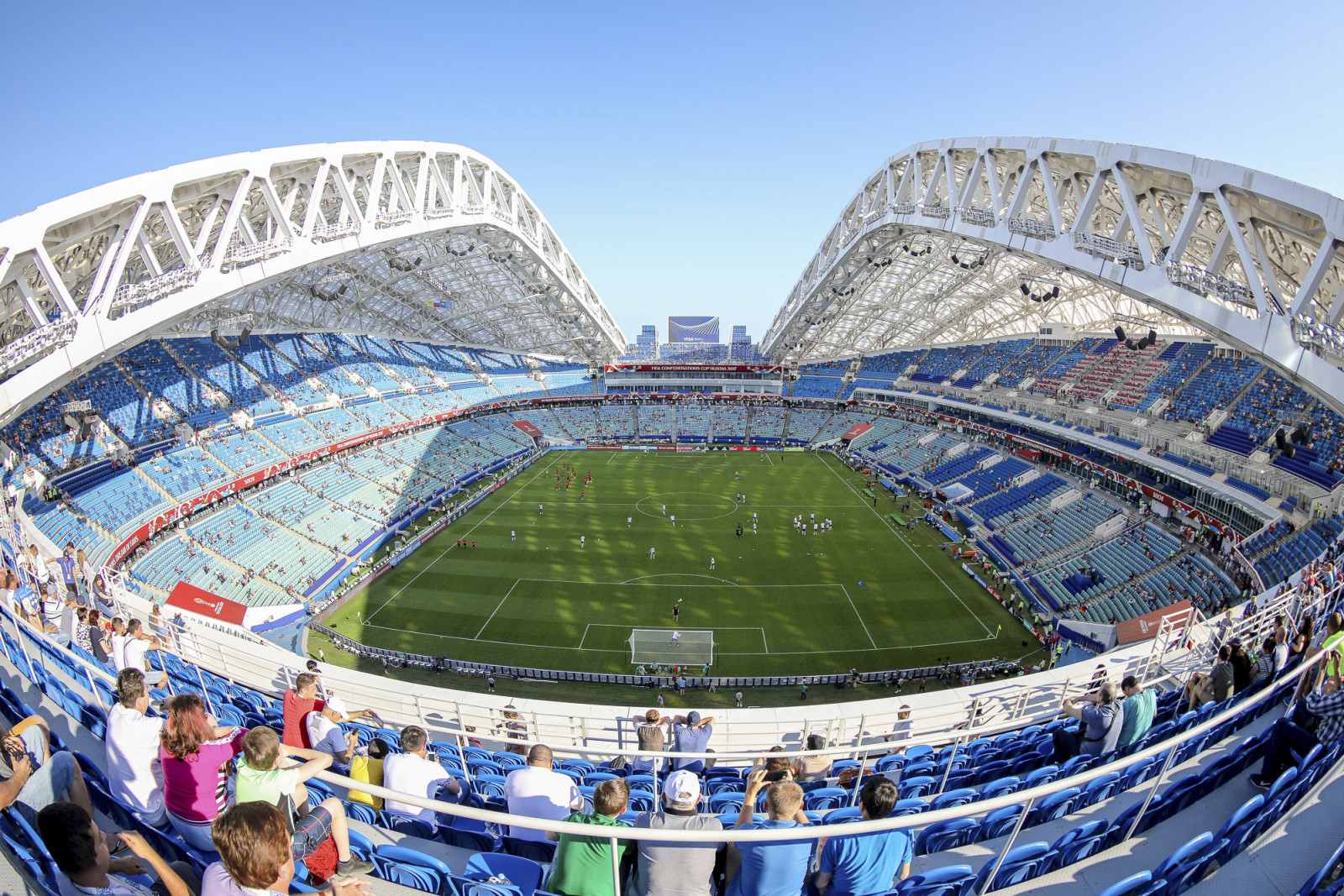 Fisht Olympic Stadium during a 2017 FIFA Confederations Cup match in June 2017.